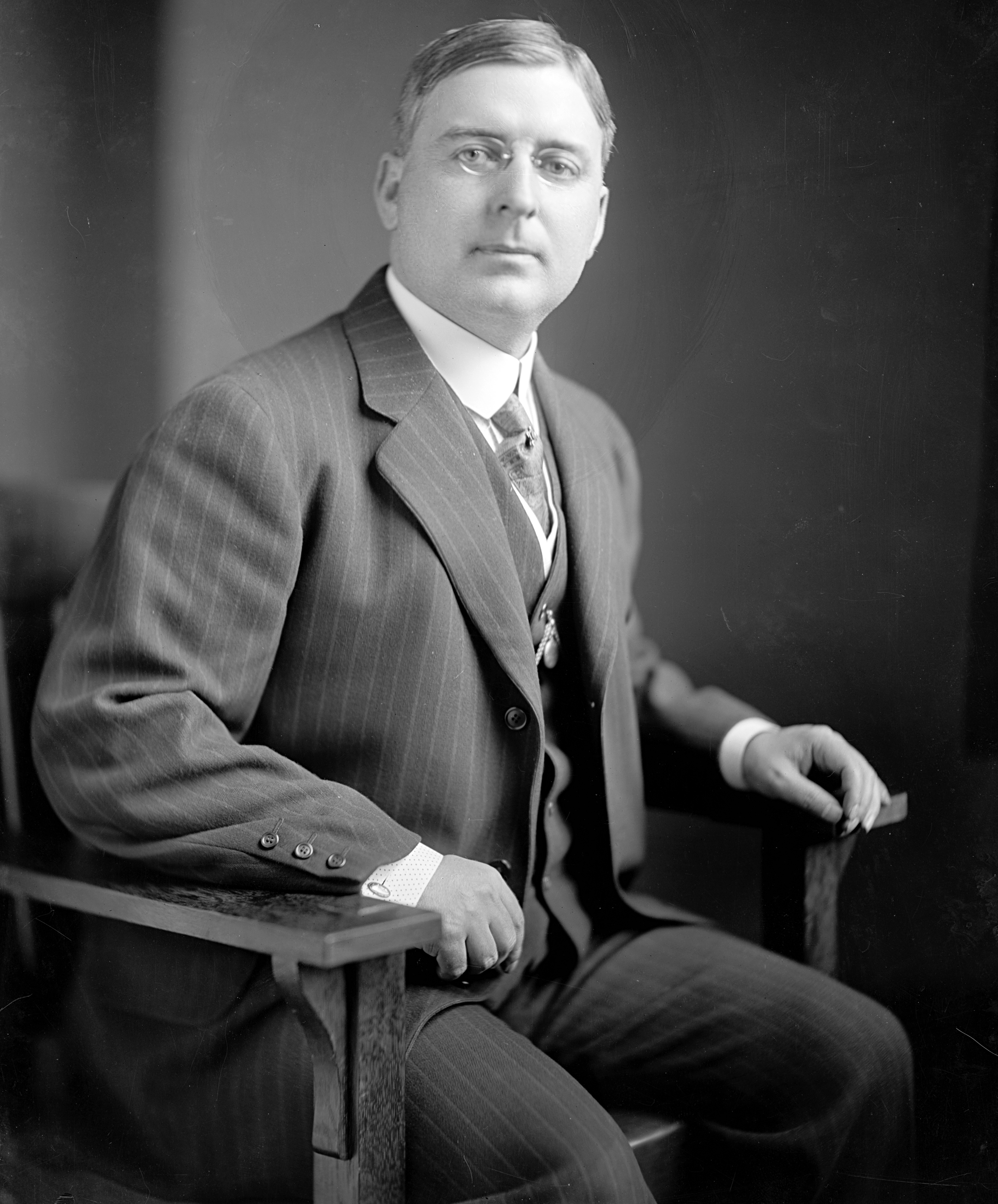 Charles Bennett Smith, US Representative from New York